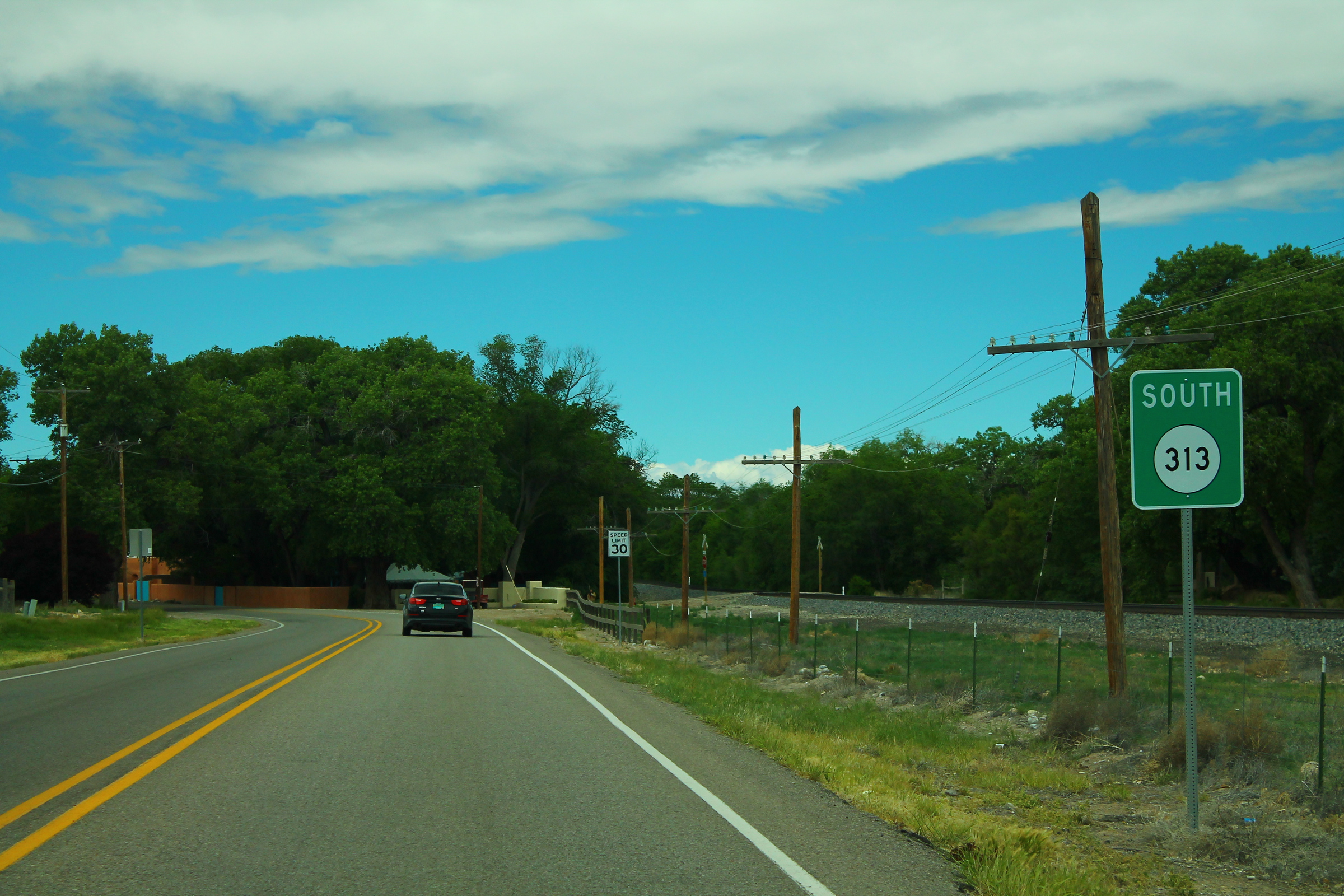 NM313sRoadSign